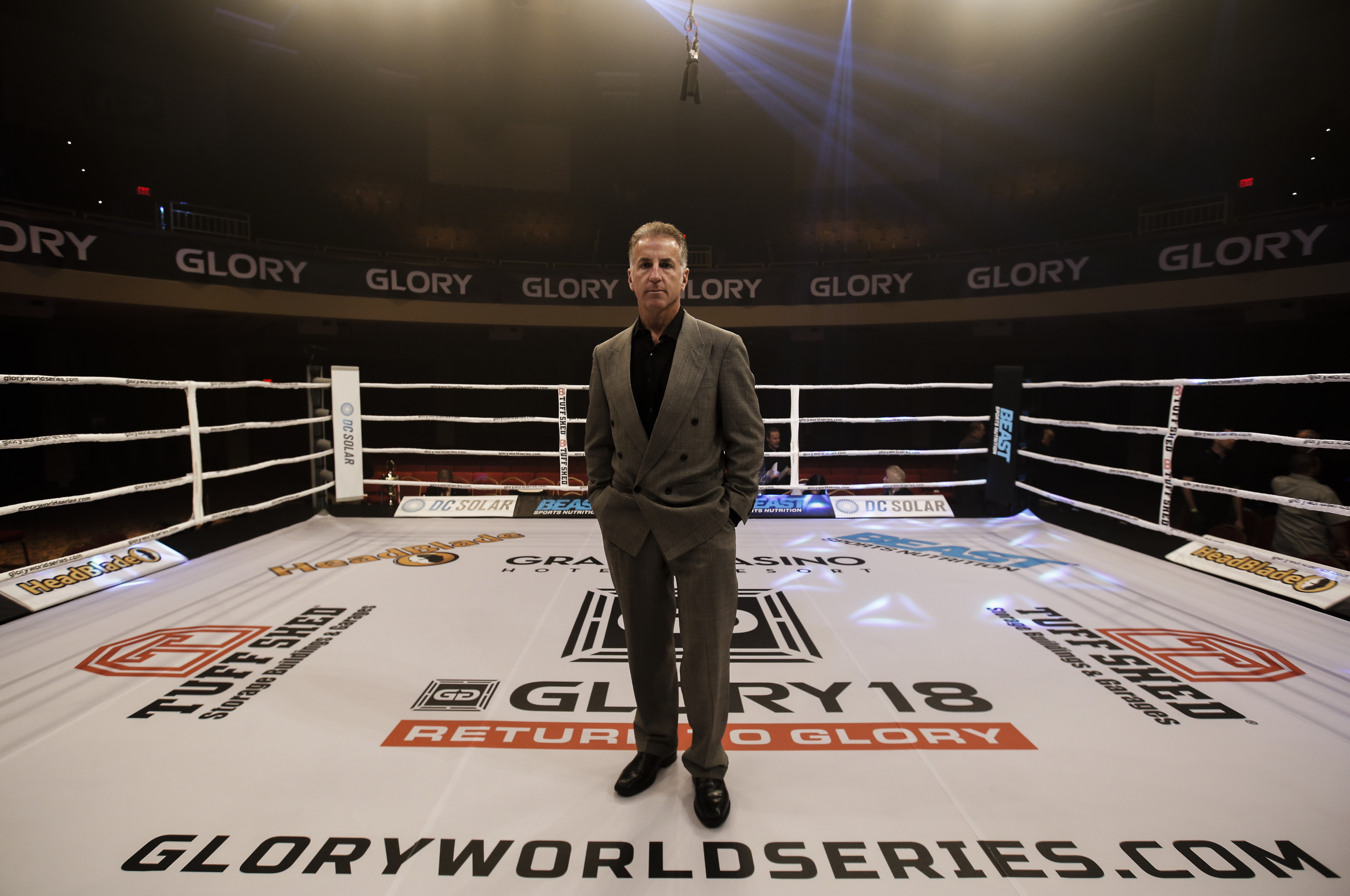 Jon J Franklin